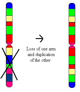 Simple illustration of an isochromosome.